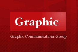 Logo of the Graphic Communications Group, Accra, Ghana